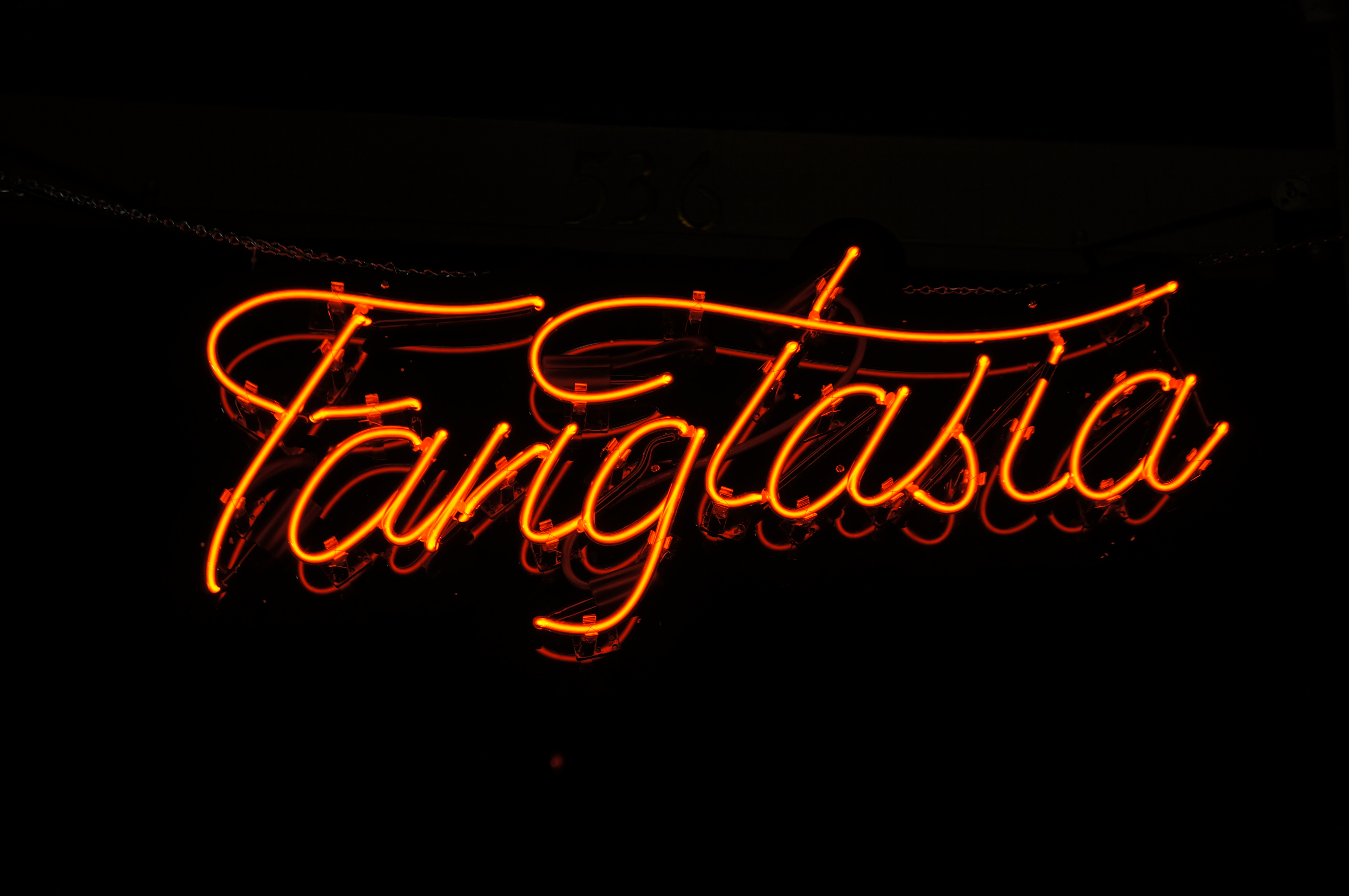 Fangtasia True Blood Party